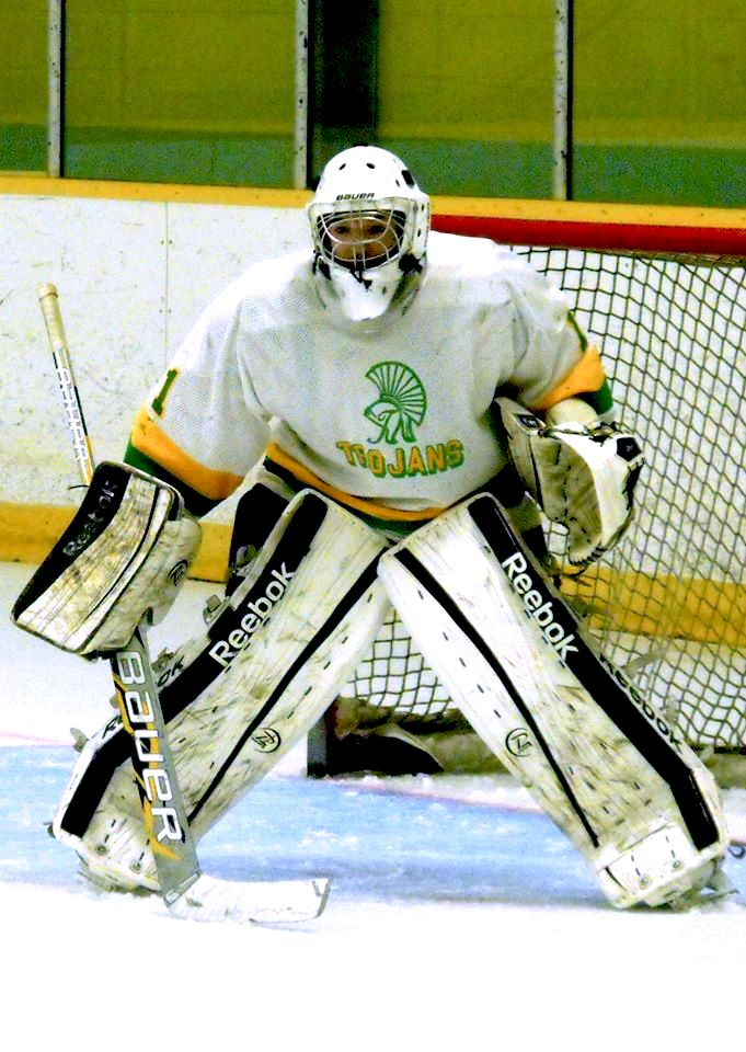 These images of OHA Jr. C action during the 2014-15 season are taken by Devan Mighton.